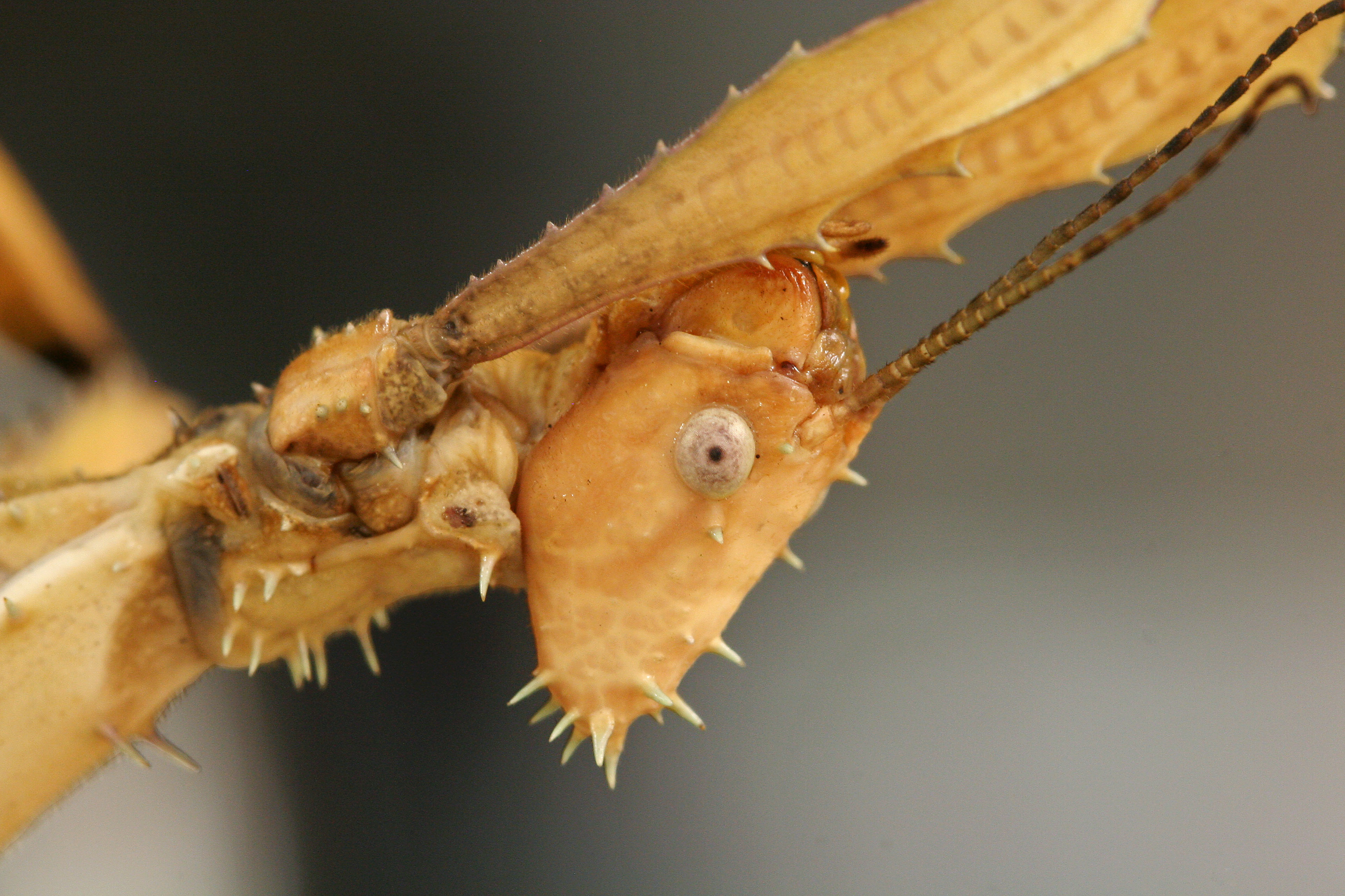 These leaf insects always look as though their head is on backwards. The mouth parts are near its arms by its antennae. Genus, species: Extatosoma tiaratum